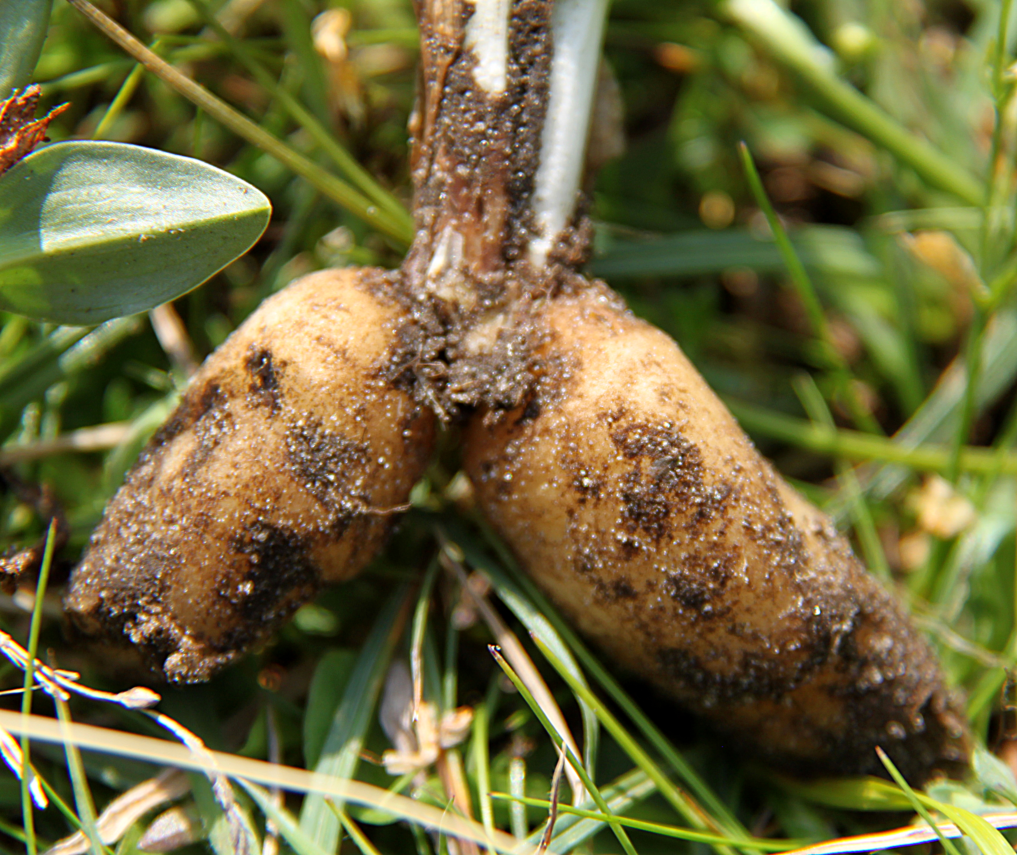 Tubers of Spiranthes spiralis, photograped at the Hompelvoet, Grevelingenmeer, The Netherlands on 30 August 2015. Specimen was dug out by the local researcher during an excursion and replanted afterwards